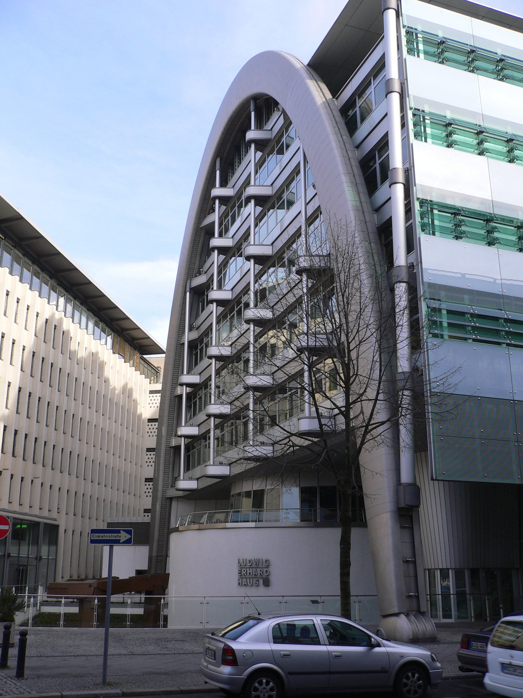 Ludwig-Erhard-Haus; on the left the old building by Franz Heinrich Sobotka und Gustav Müller, build 1953/54, Berlin-Charlottenburg, Germany